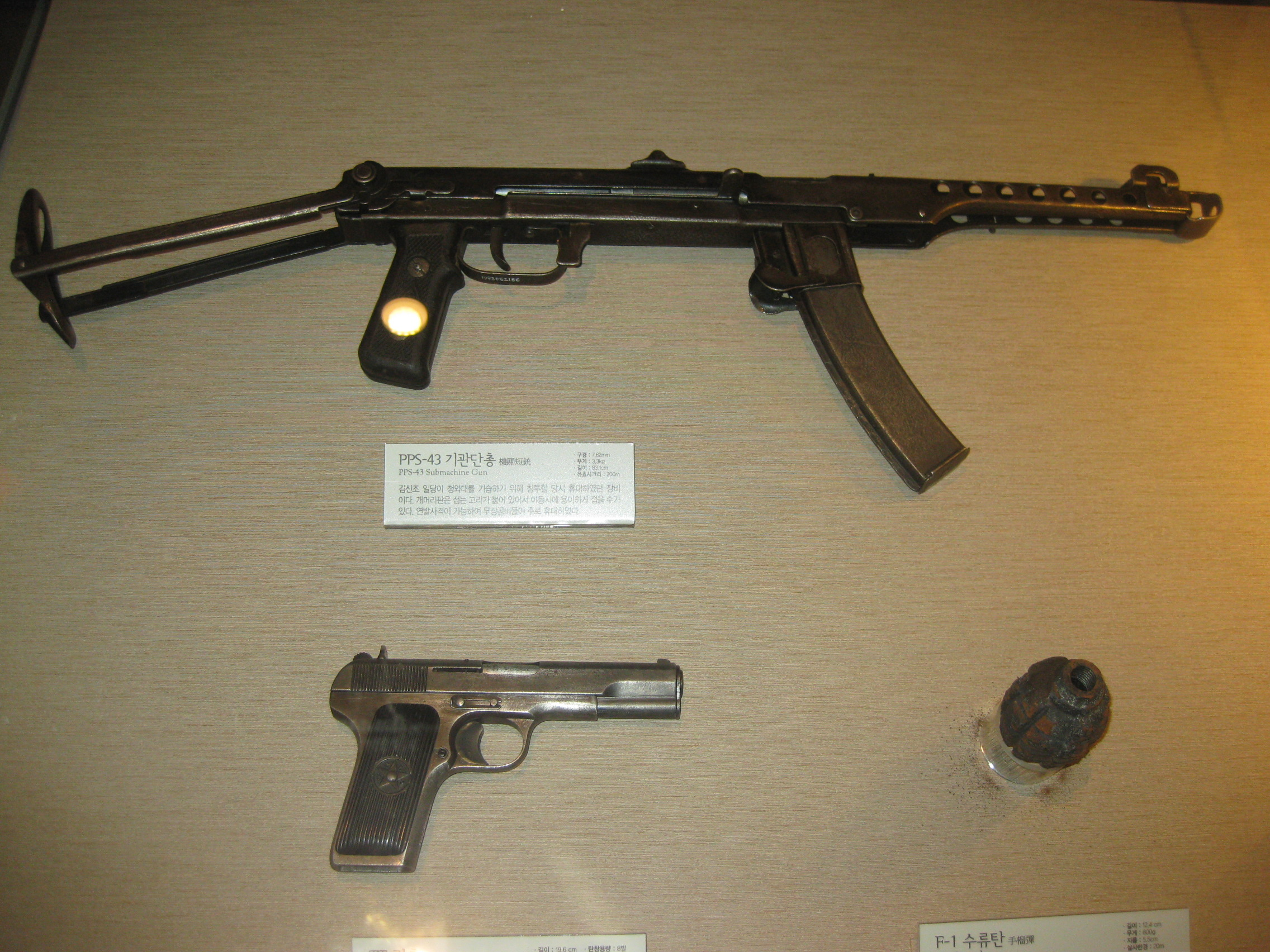 Kim Shin-jo PPS-43, TT pistol and hand grenade